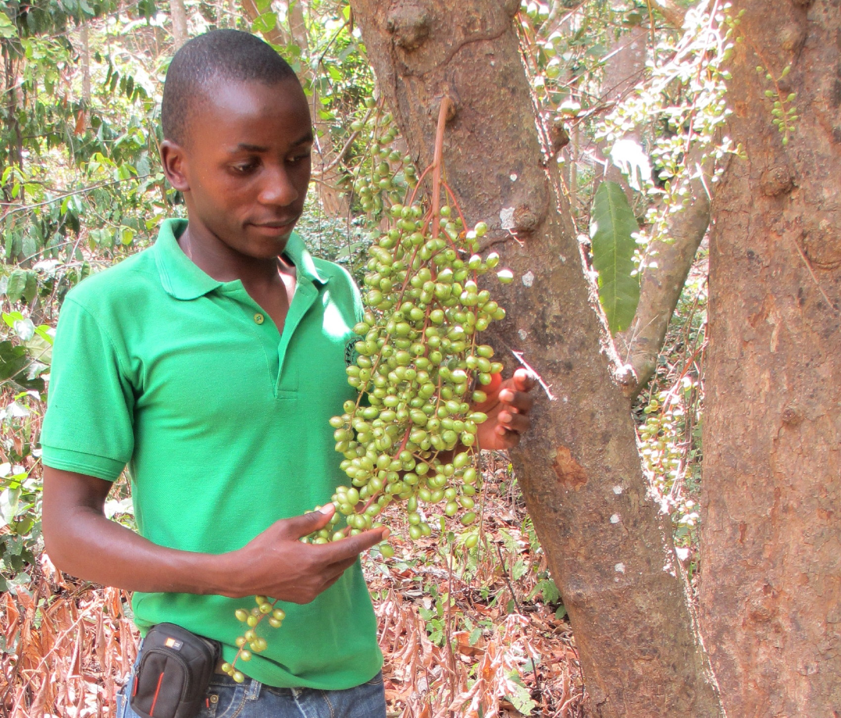 The fruits are edible, with a good taste, although a bit sour, and grow directly on the tree trunk. Here close to Mueda on the Makonde Plateau of Northern Mozambique. Leaves are compound. The large fruit bunch (not yet ripe) is admired by Obet Jose Baptista. Species: Sorindeia madagascariensis, family Anacardiaceae.